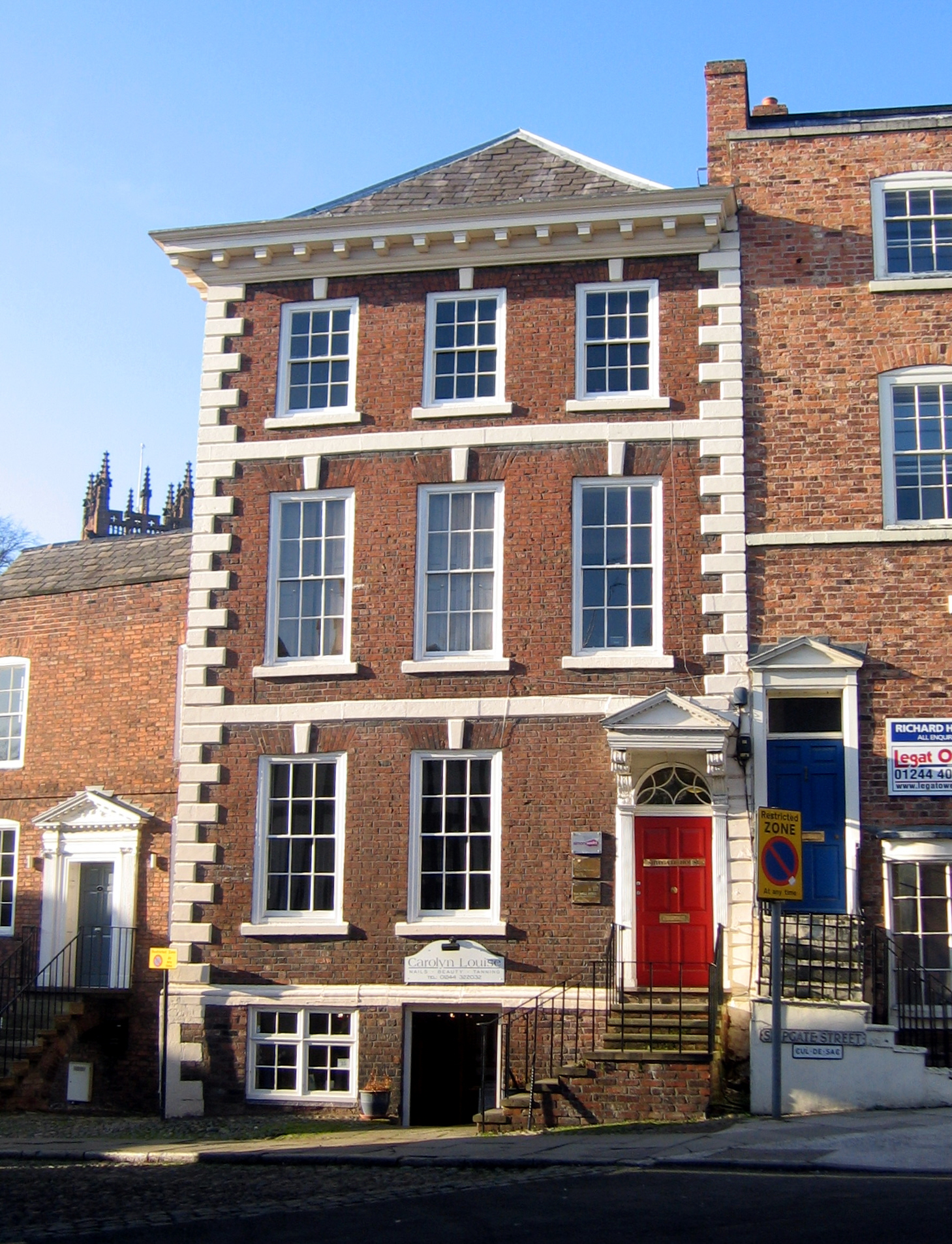 Photograph of Shipgate House, Chester